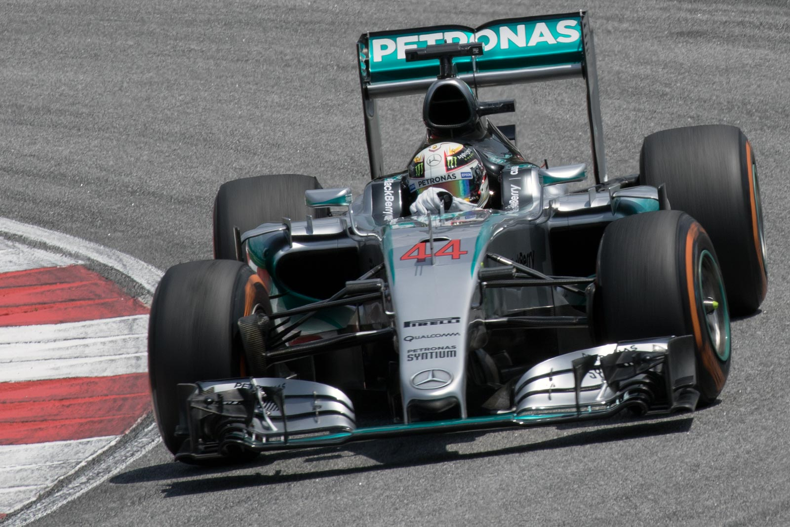 Formula One 2015 Rd.2 Malaysian GP: Lewis Hamilton (Mercedes GP)